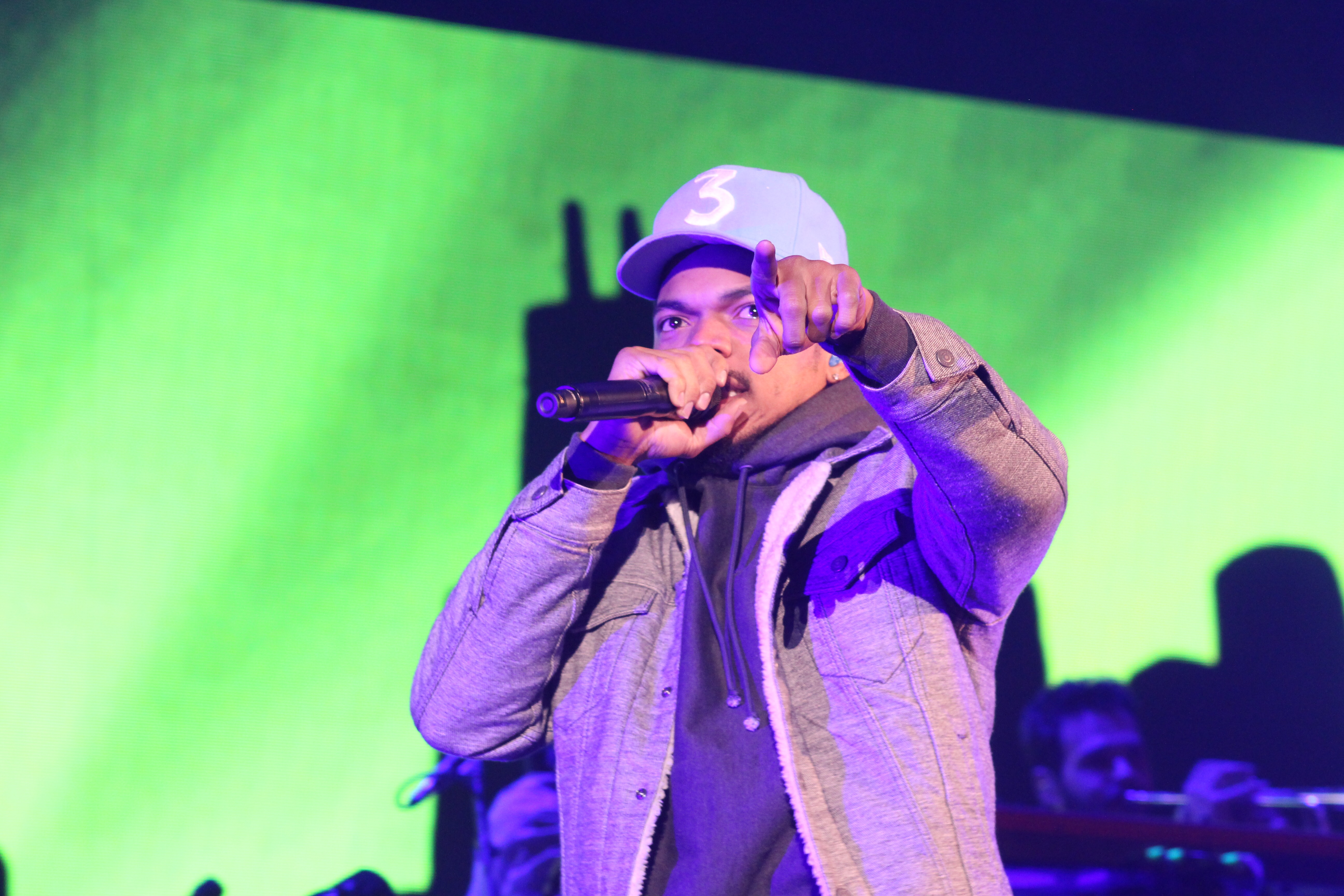 Chance the Rapper performing at Red Rocks Amphitheatre on May 2, 2017 in Denver County, Colorado.